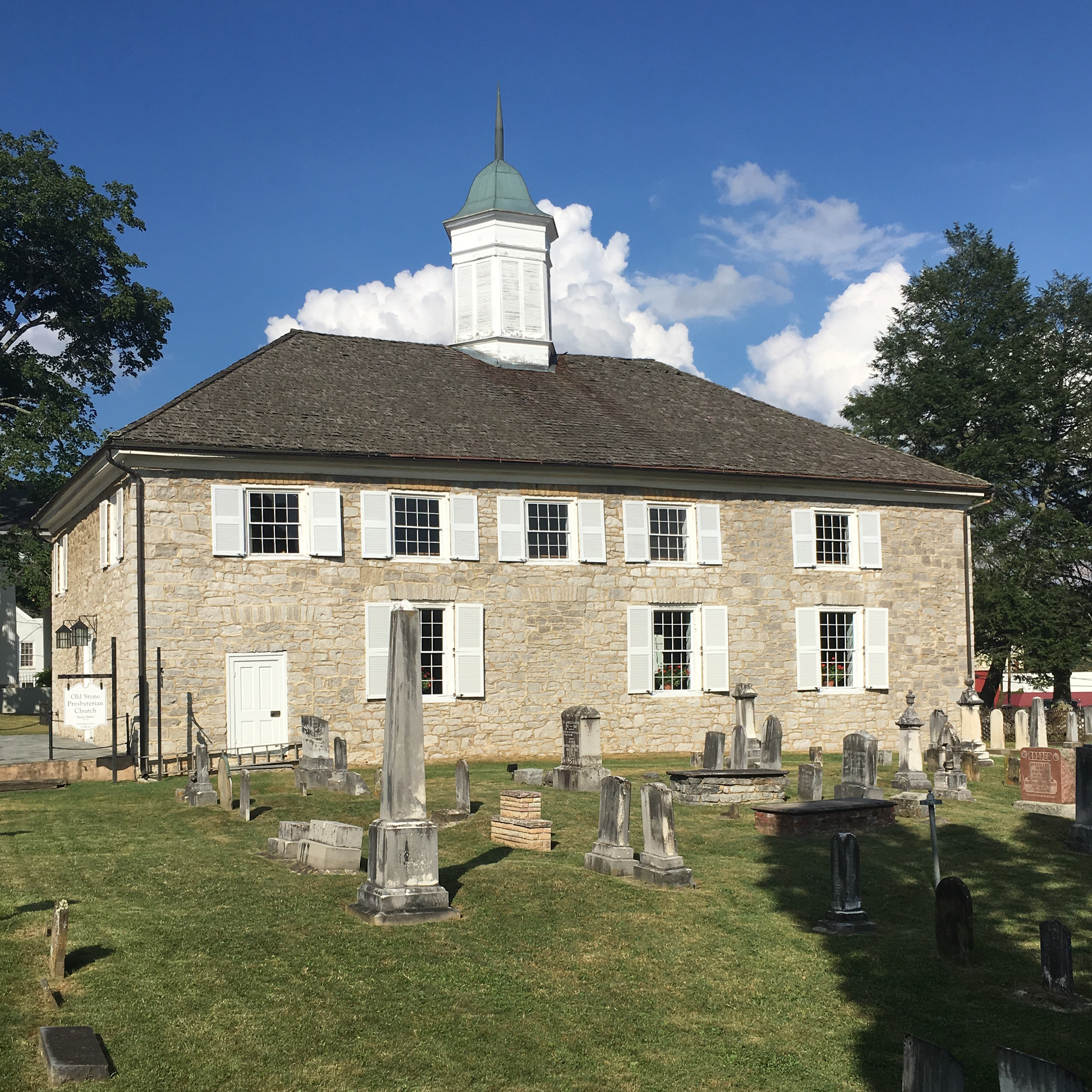 1796 Old Stone Church in Lewisburg, West Virginia